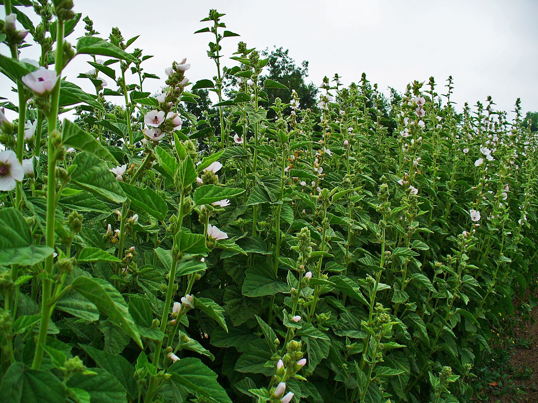 Althaea officinalis, Malvaceae, Common Marshmallow, habitus. The root is used in homeopathy as remedy: Althaea (Alth.)